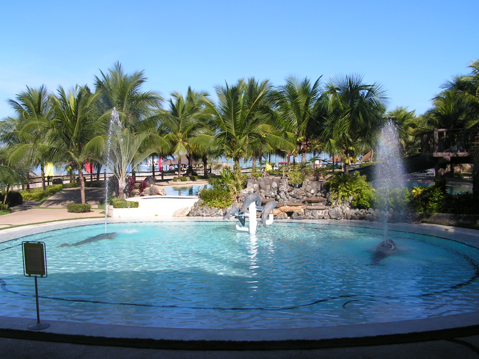 own work